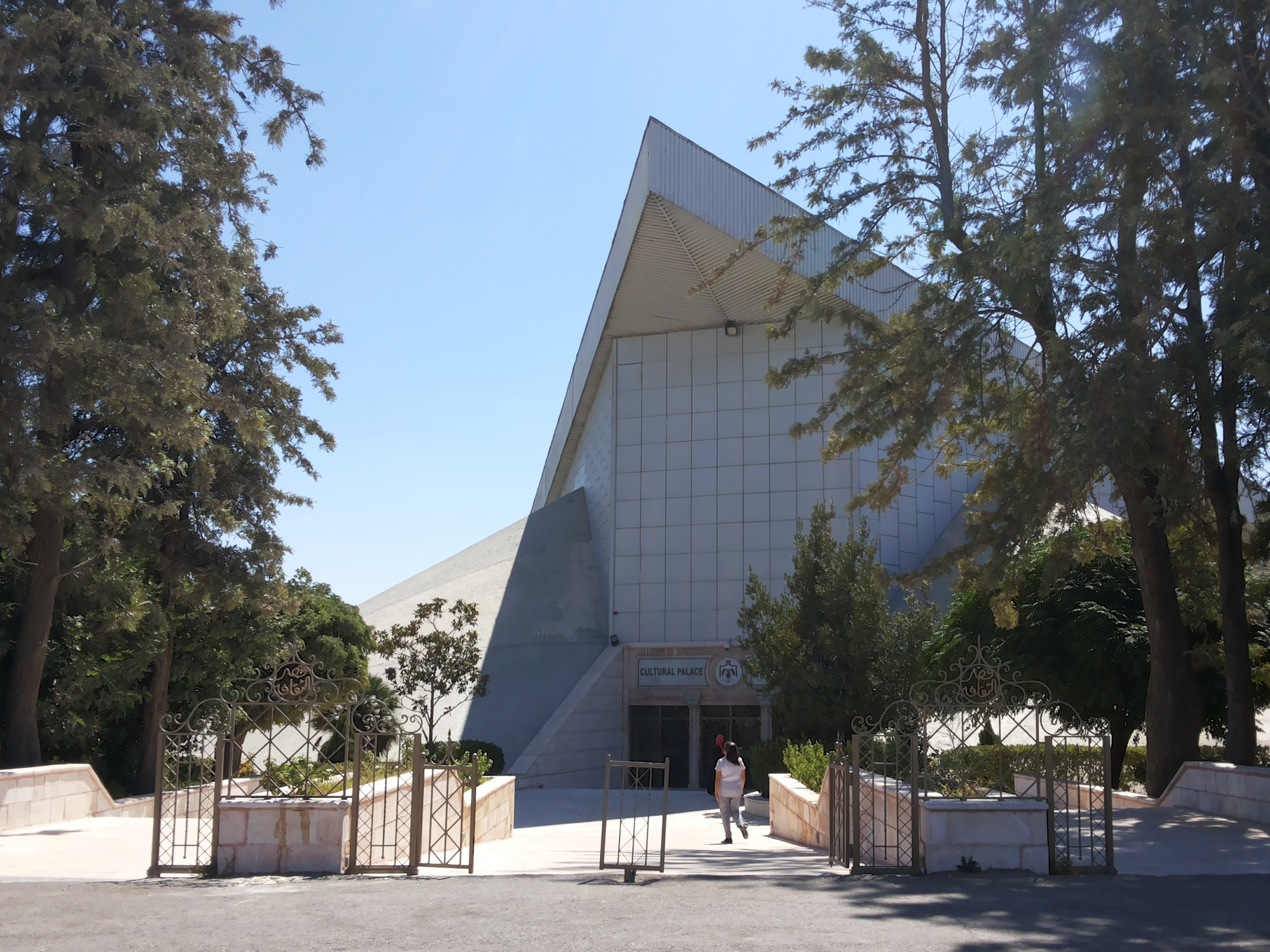 Palace of Culture at Al Hussein Youth City, Amman, Jordan.